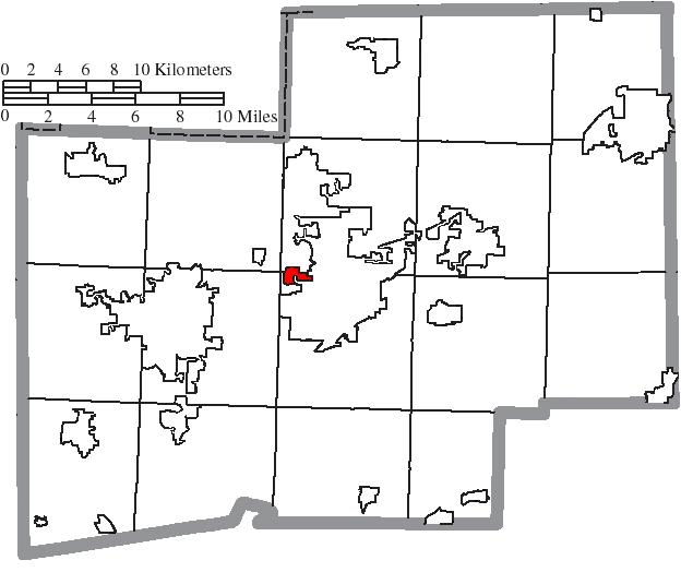 Map of the municipal and township boundaries of Stark County, Ohio, United States, as of the 2000 census, with the location of the village of Meyers Lake highlighted. Township borders are shown only in unincorporated areas in order to differentiate incorporated and unincorporated areas more clearly.